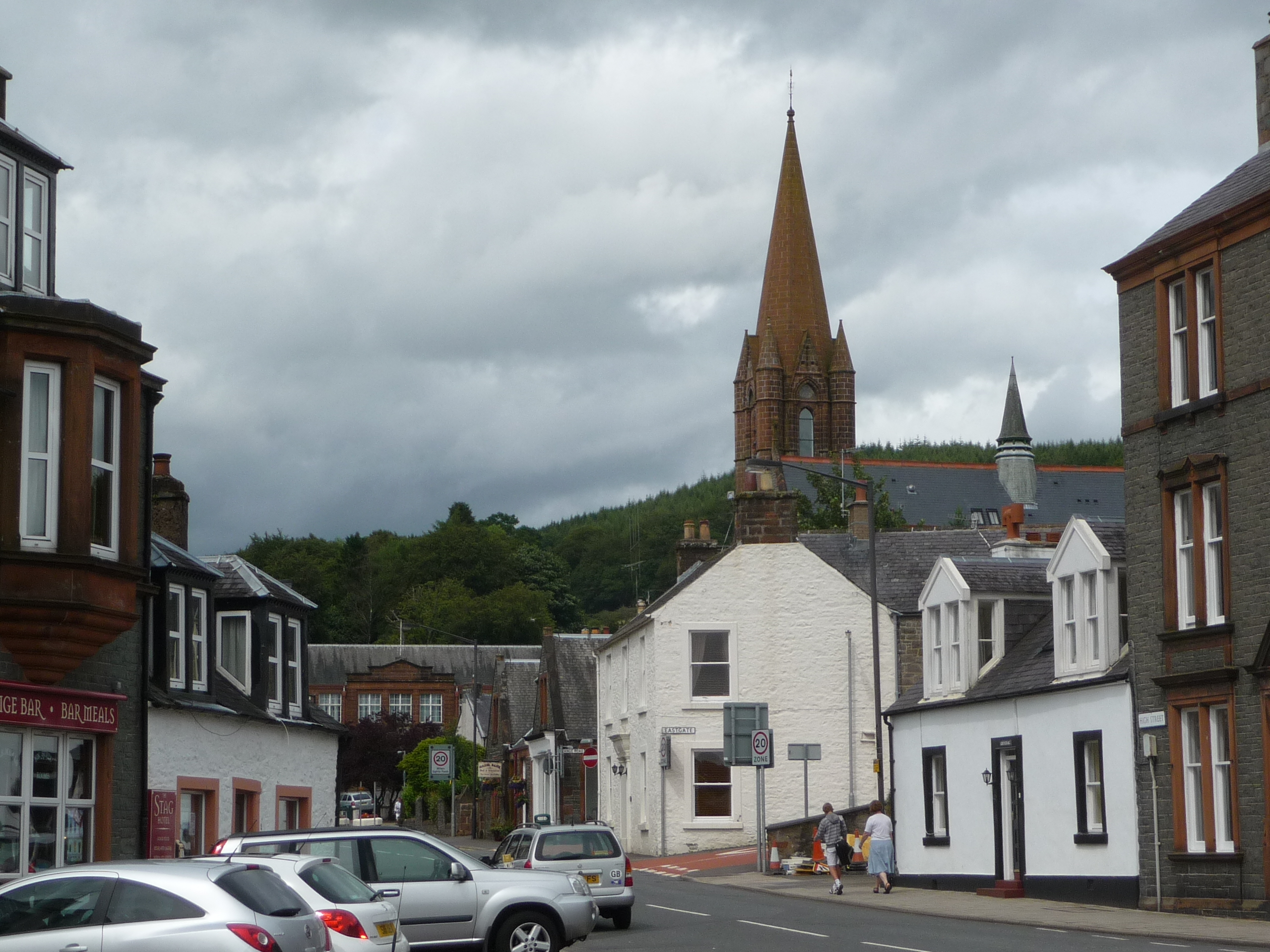 Moffat, Dumfries and Galloway, Scotland